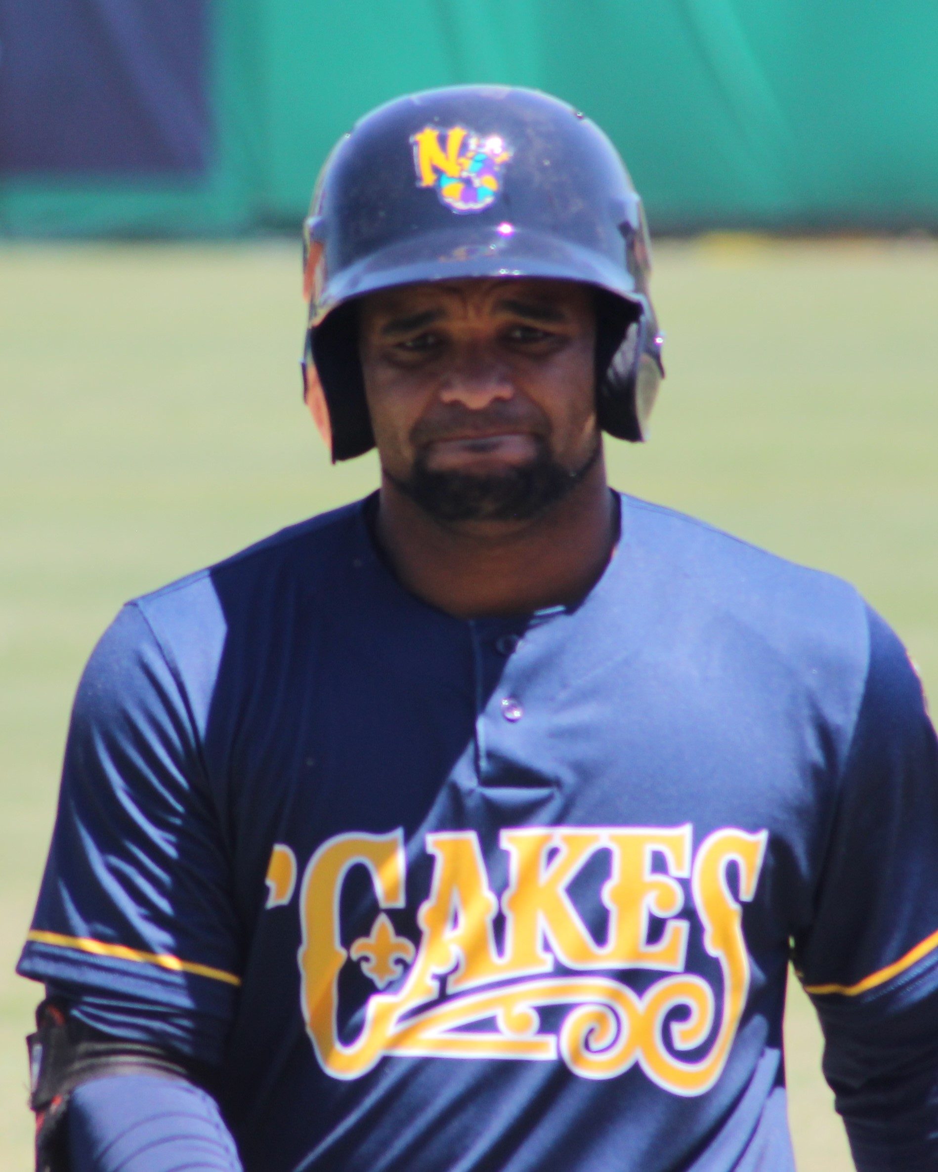 Professional baseball player Tomás Telis during an April 2017 minor-league game in New Orleans.